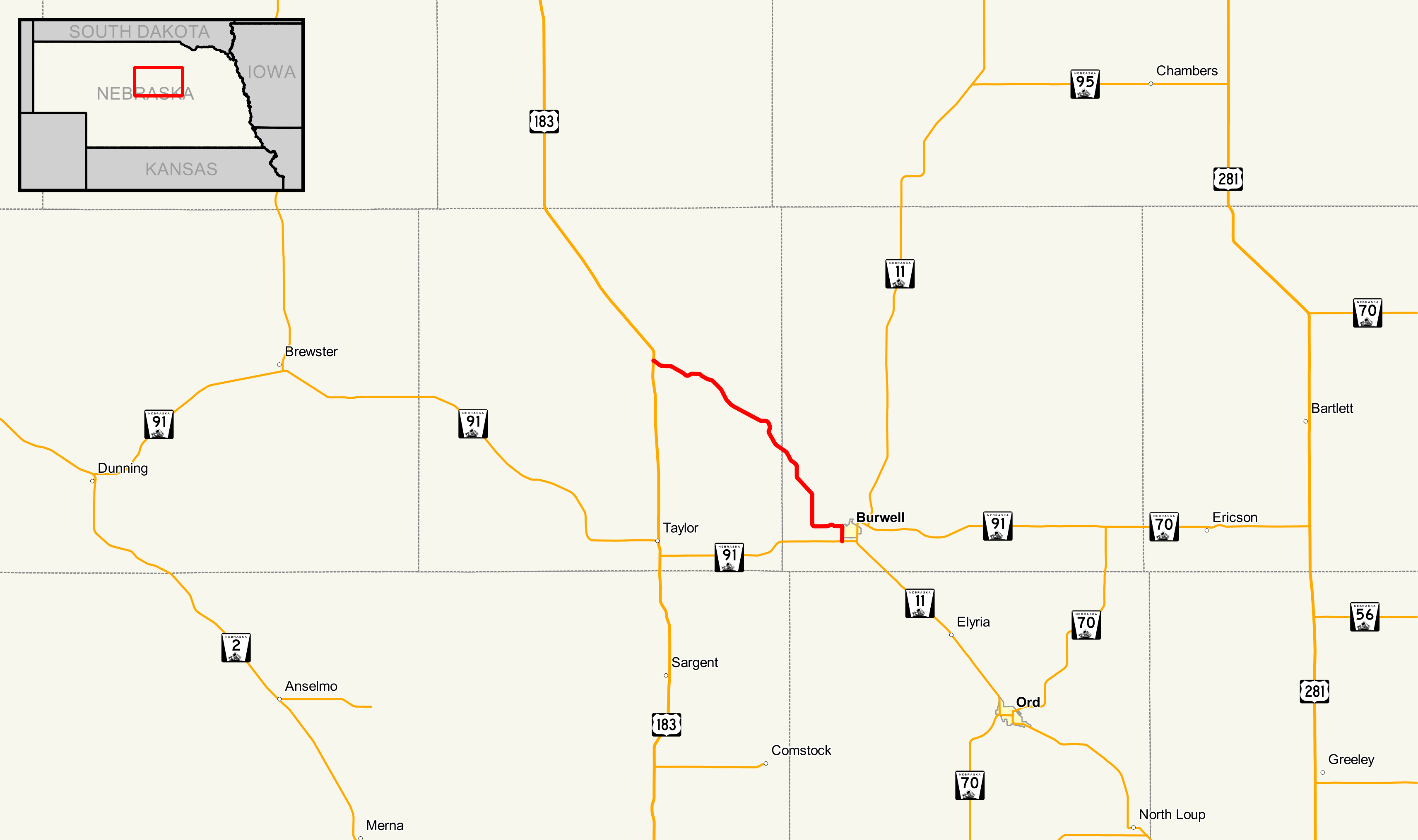 Map of Nebraska Highway 96 Data Sources: Nebraska Highways - - Dec 2016 Nebraska County Boundaries - - Dec 2016 Nebraska City Boundaries - - Dec 2016 This PNG graphic was created with QGIS